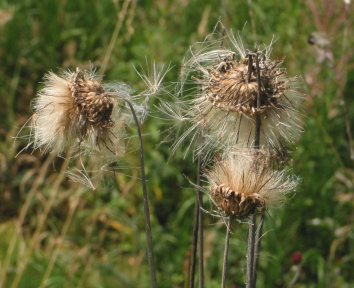 Melancholy thistle (Cirsium heterophyllum), embankment of a fish pond between Mueckenberg and Taufstein, Vogelsberg, Germany